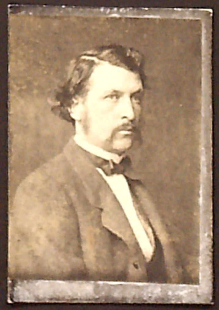 Small photograph of Frank Bellew.Title: Thomas Butler Gunn Diaries: Volume 11, page 228, ca. 1859 [photograph]